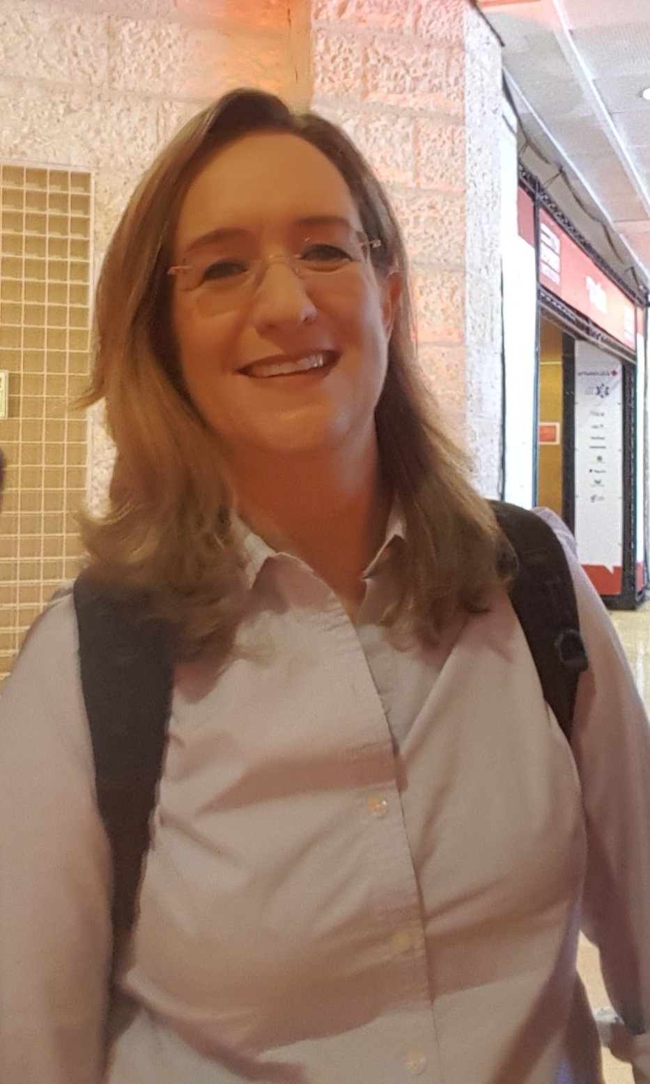 Ilana Dayan